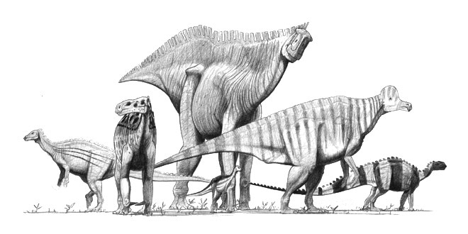 Various ornithopod dinosaurs. Far left: Camptosaurus, left: Iguanodon, centre background: Shantungosaurus, centre foreground: Dryosaurus, right: Corythosaurus, far right (large): Tenontosaurus.